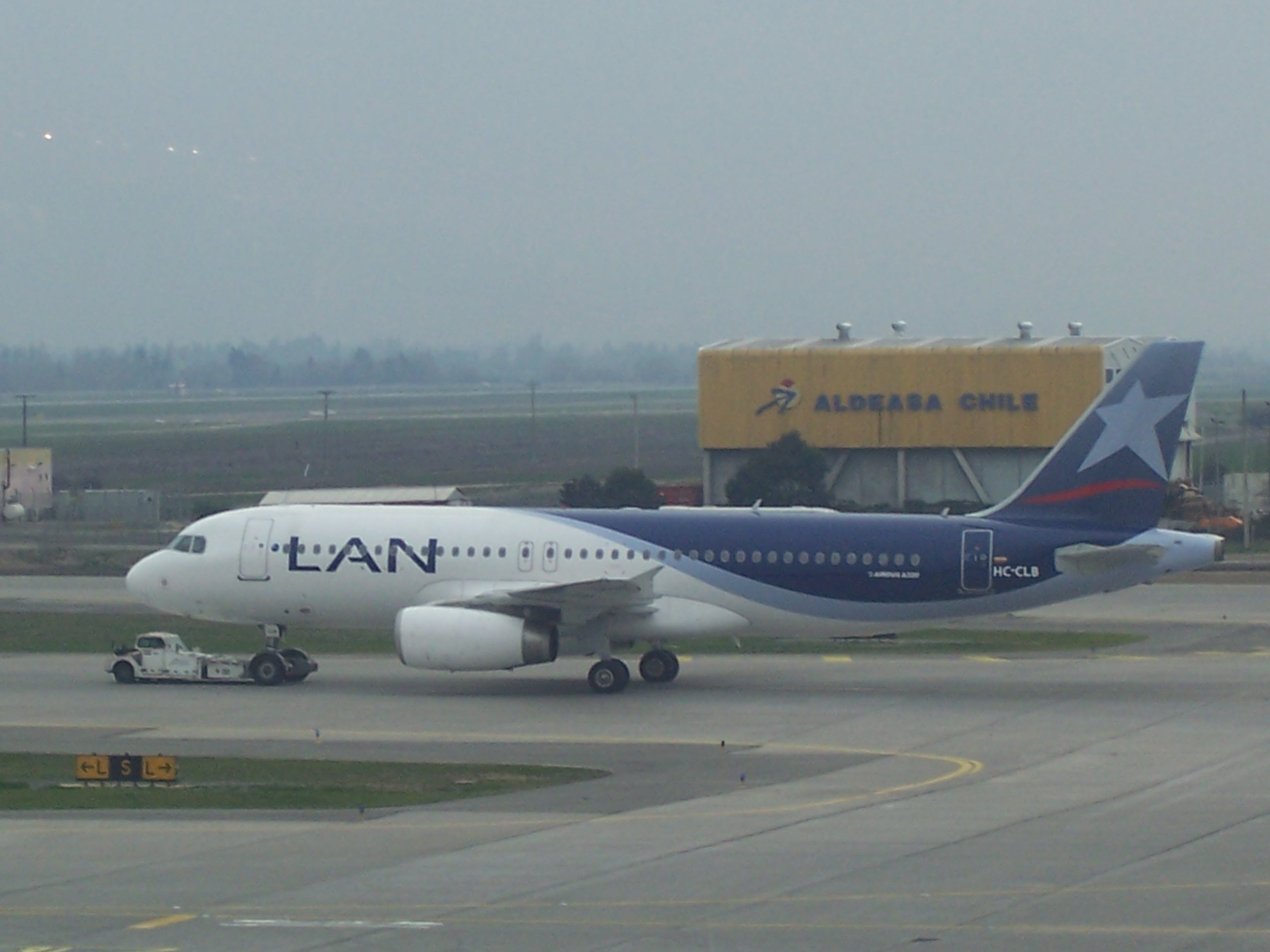 Airbus A320 LAN Ecuador in Comodoro Arturo Merino Benitez International Airport at 24-08-2011